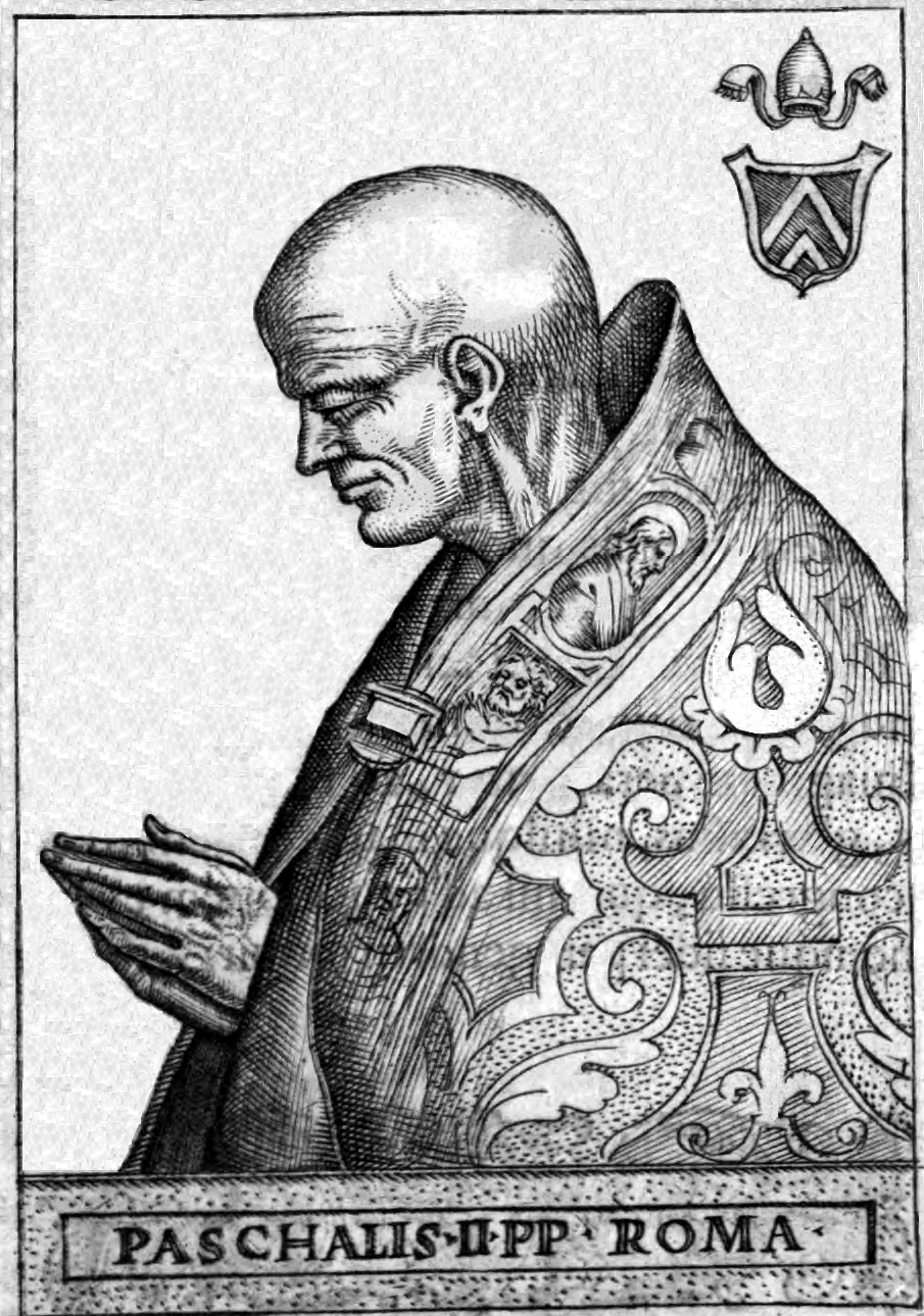 Pope Paschal II, late Renaissance Italian engraving